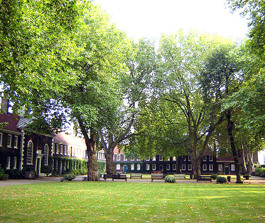 The Geffrye Museum front quadrangle, Kingsland Road, Hackney, London. The buildings were constructed as almshouses. 3 September 2005. Photographer: Fin Fahey